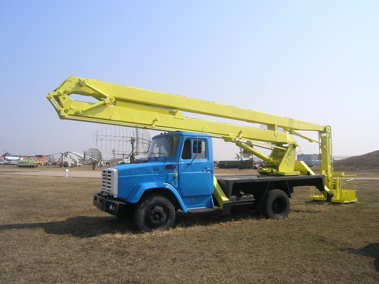 Aerial work platform AGP-22.04 at ZiL-433362 in Technical museum Togliatti